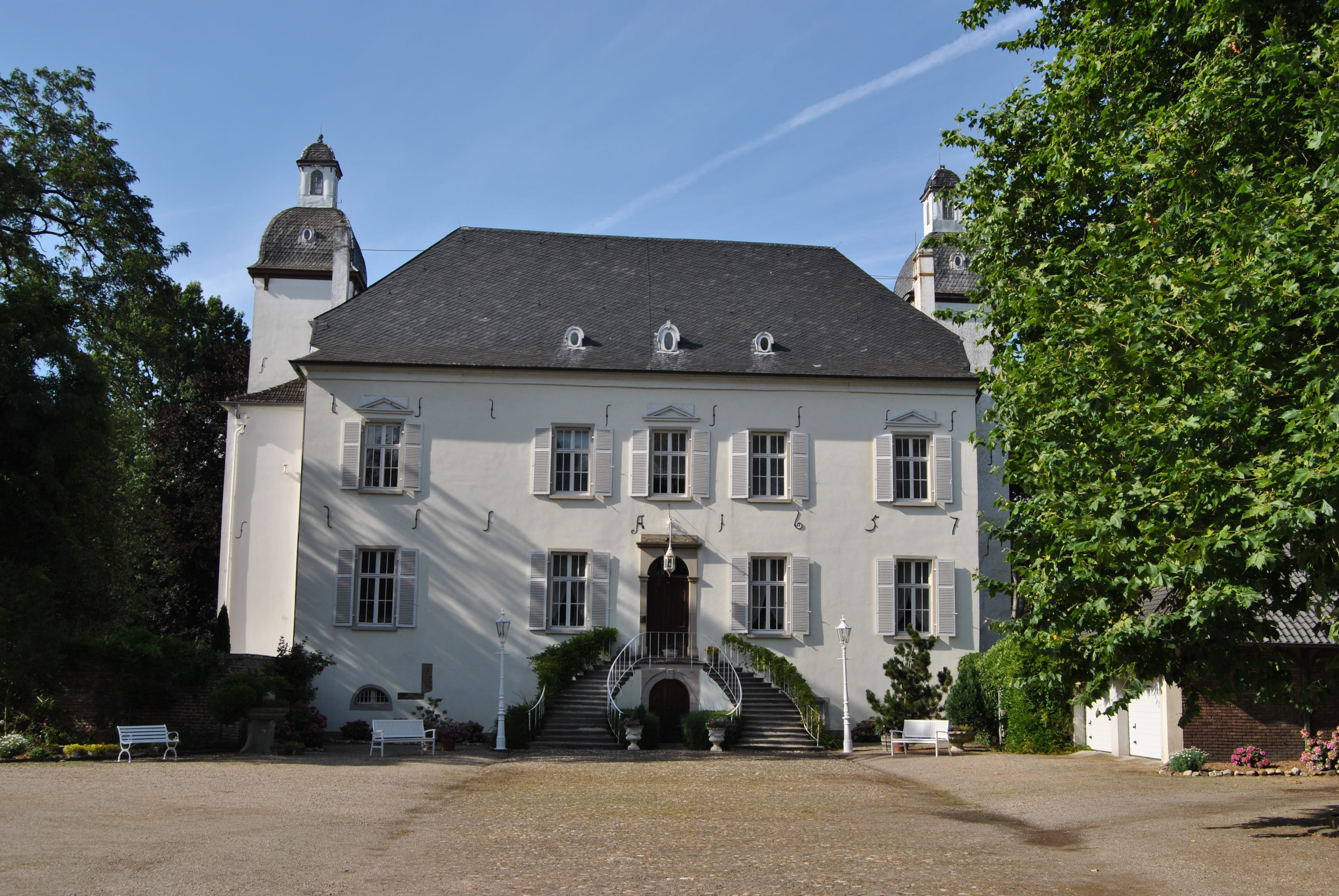 This photograph was taken with a Nikon D3000 This image shows a heritage building in Germany, located in the North Rhine-Westphalian city Moers. Moers, Schloss Lauersfort